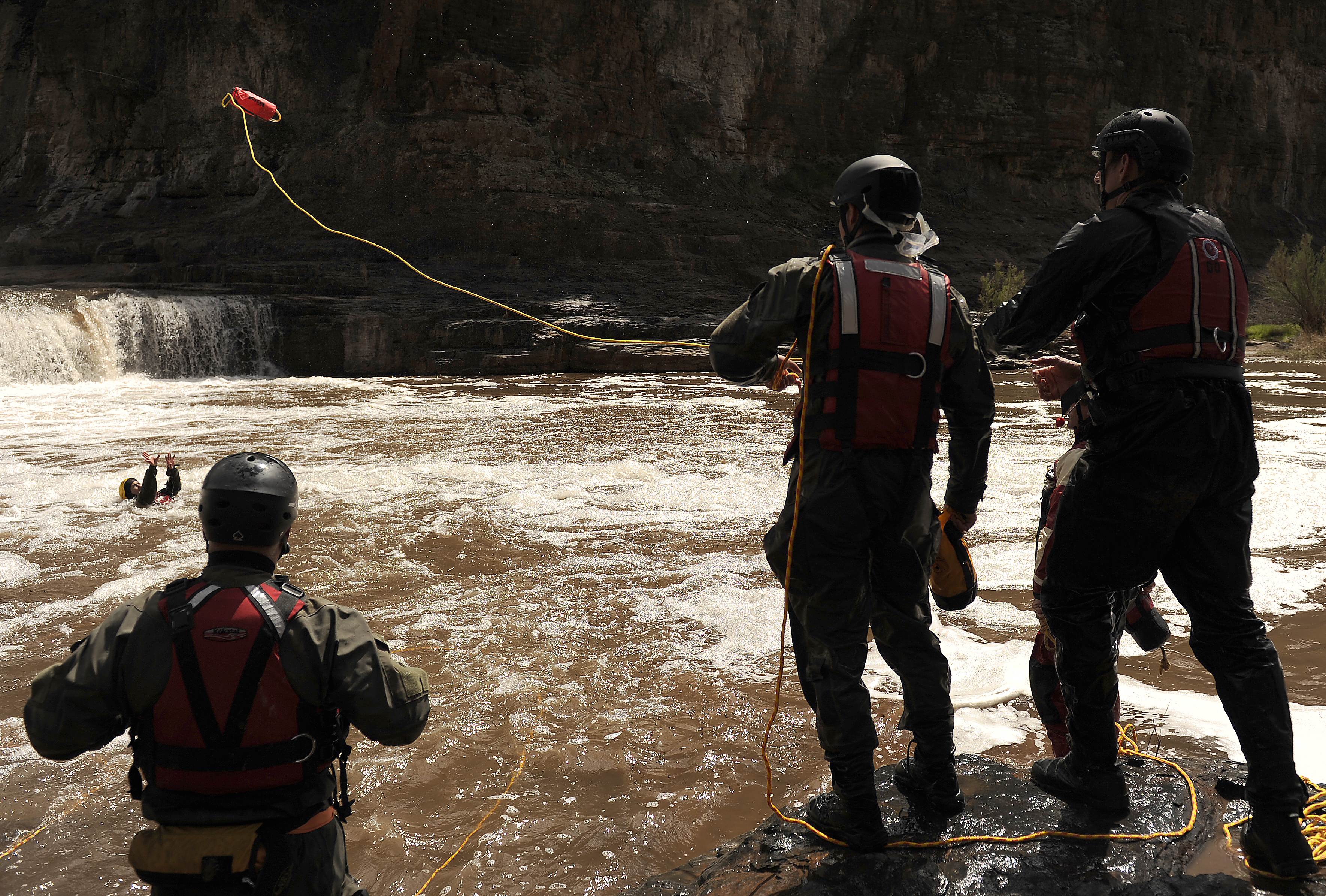 U.S. Air Force pararescuemen from the 48th Rescue Squadron conduct swift water rescue training April 10, 2013 near Davis-Monthan Air Force Base, Ariz., during Angel Thunder 2013. Angel Thunder is the largest joint service, multinational, interagency combat search and rescue exercise designed to train personnel recovery assets using a variety of scenarios to simulate deployment conditions and contingencies. (U.S. Air Force photo by Staff Sgt. Tim Chacon)